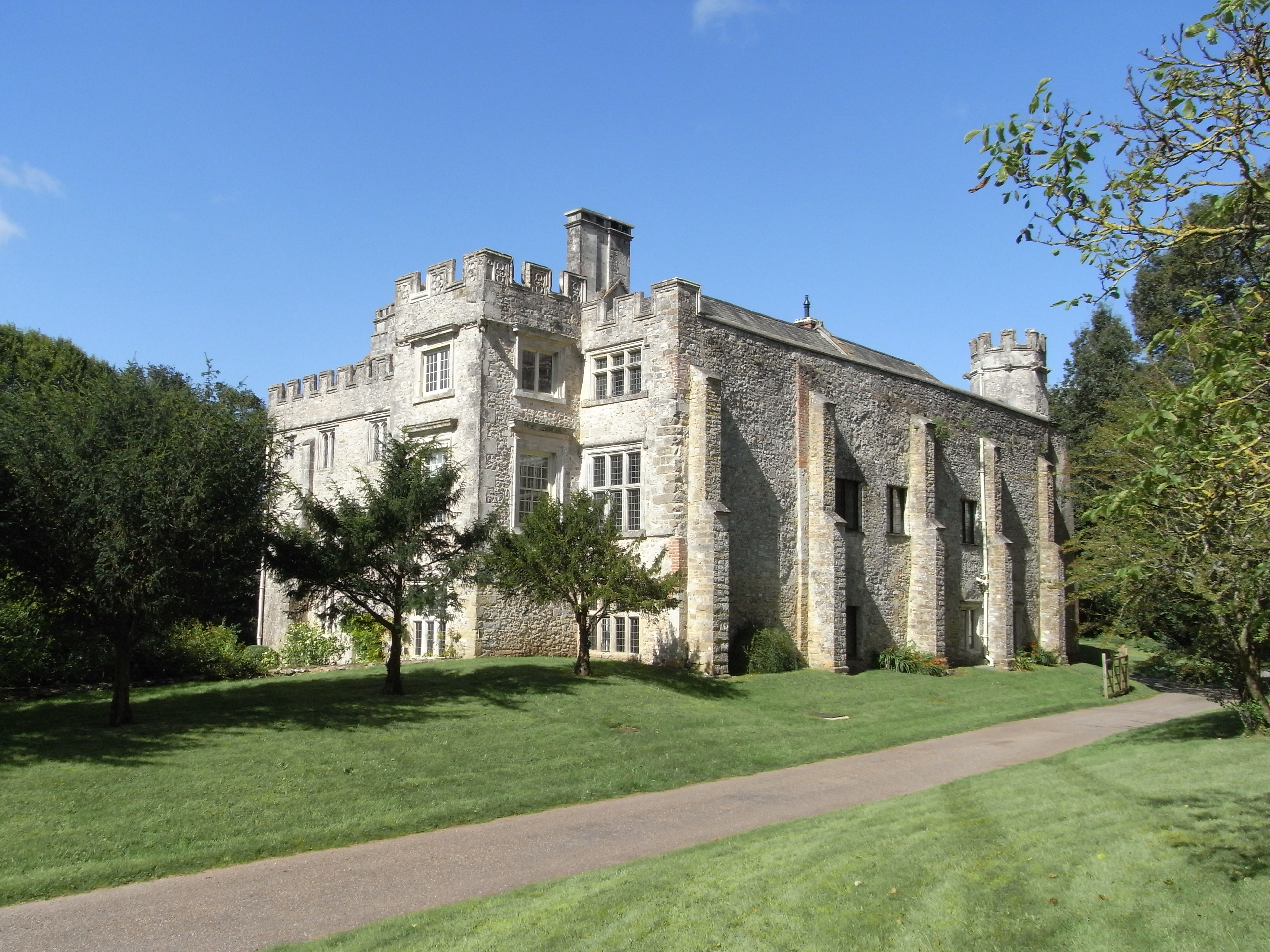 Old Shute House, Devon, viewed from NE. The wall on the north (right) now shored up with butresses formed the southern wall of the 16th.c. additions demolished in 1785